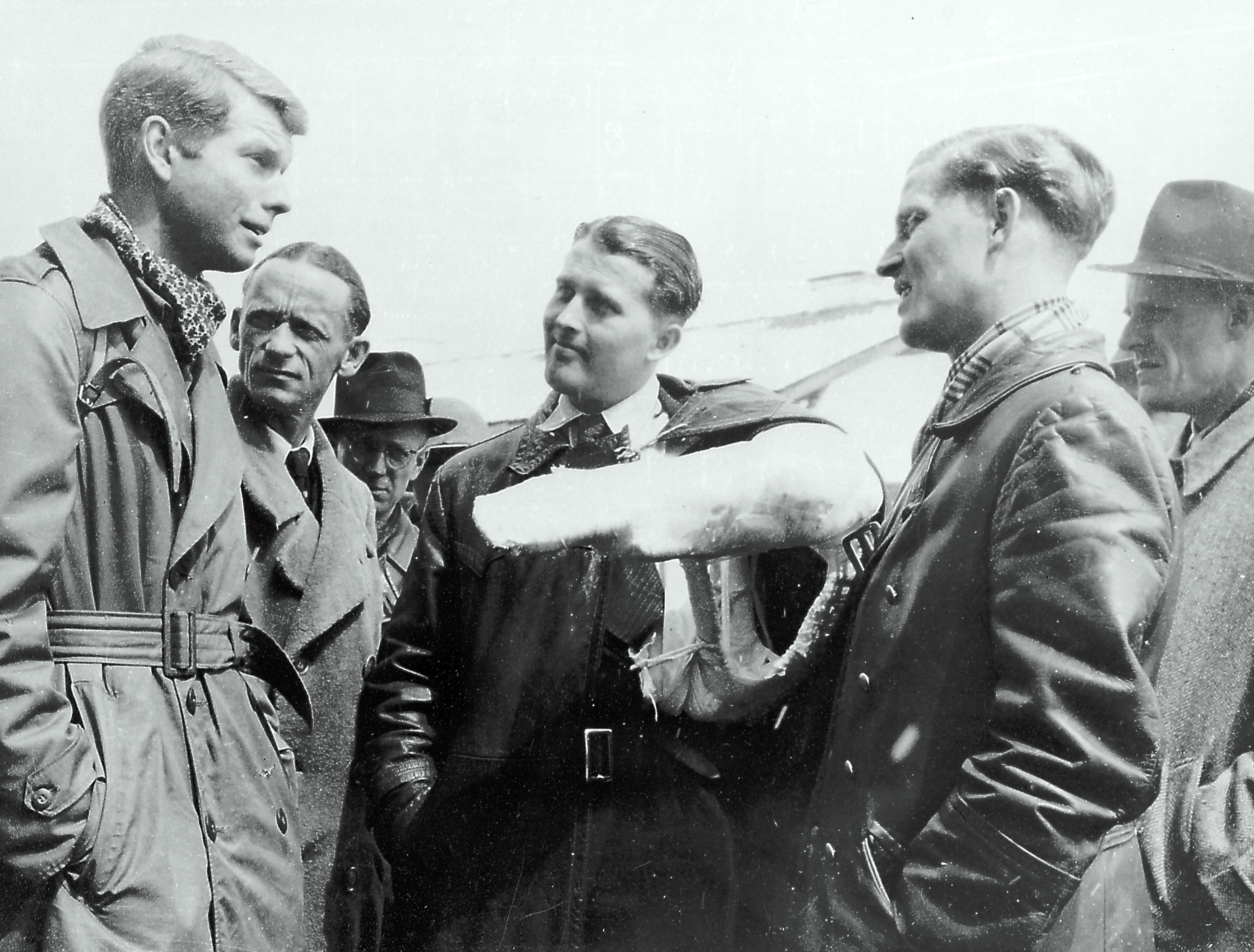 Dr. Wernher von Braun surrenders to U.S. Army Counterintelligence persornel of the 44th Infantry Division in Reutte, Tirol on May 2 or May 3, 1945. Left to right are : Charles Stewart, CIC agent; Dr. Herbert Axster; Dieter Huzel; Dr. von Braun (arm in cast); Magnus von Braun (brother) and Hans Lindenberg.